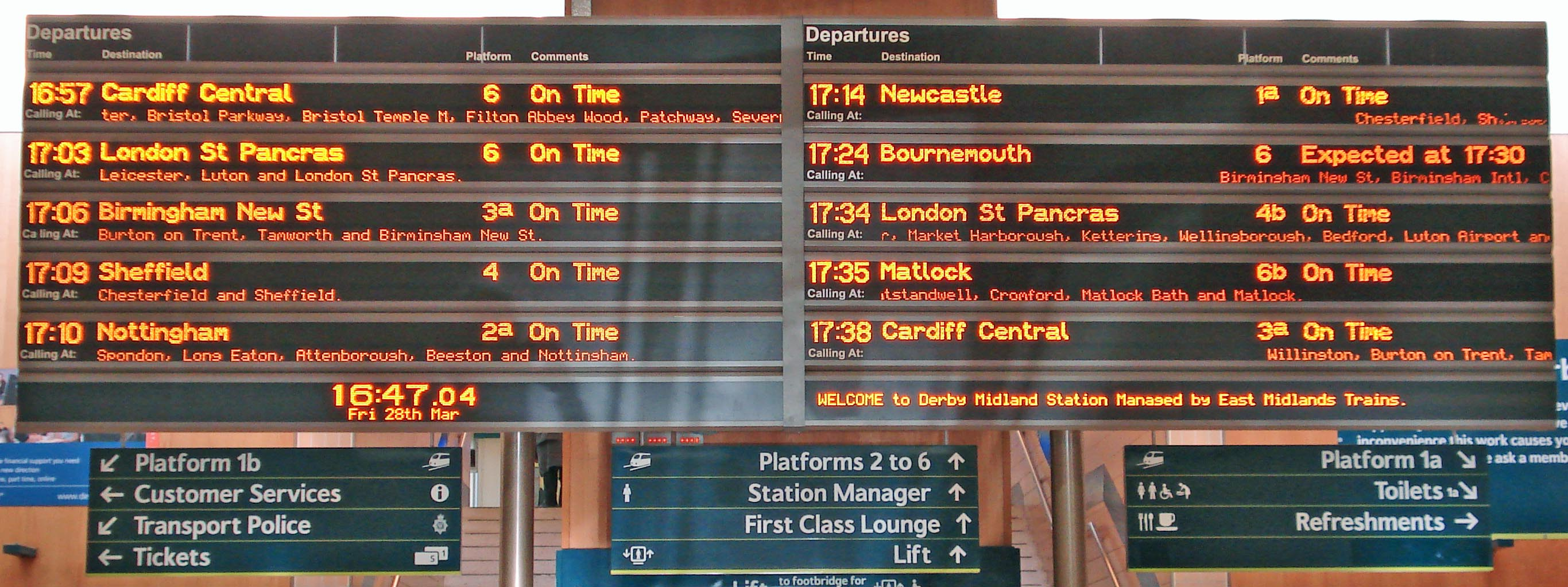 The departures board at Derby Midland Station